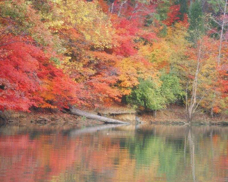 Catherine Stanton Reid, uploaded source